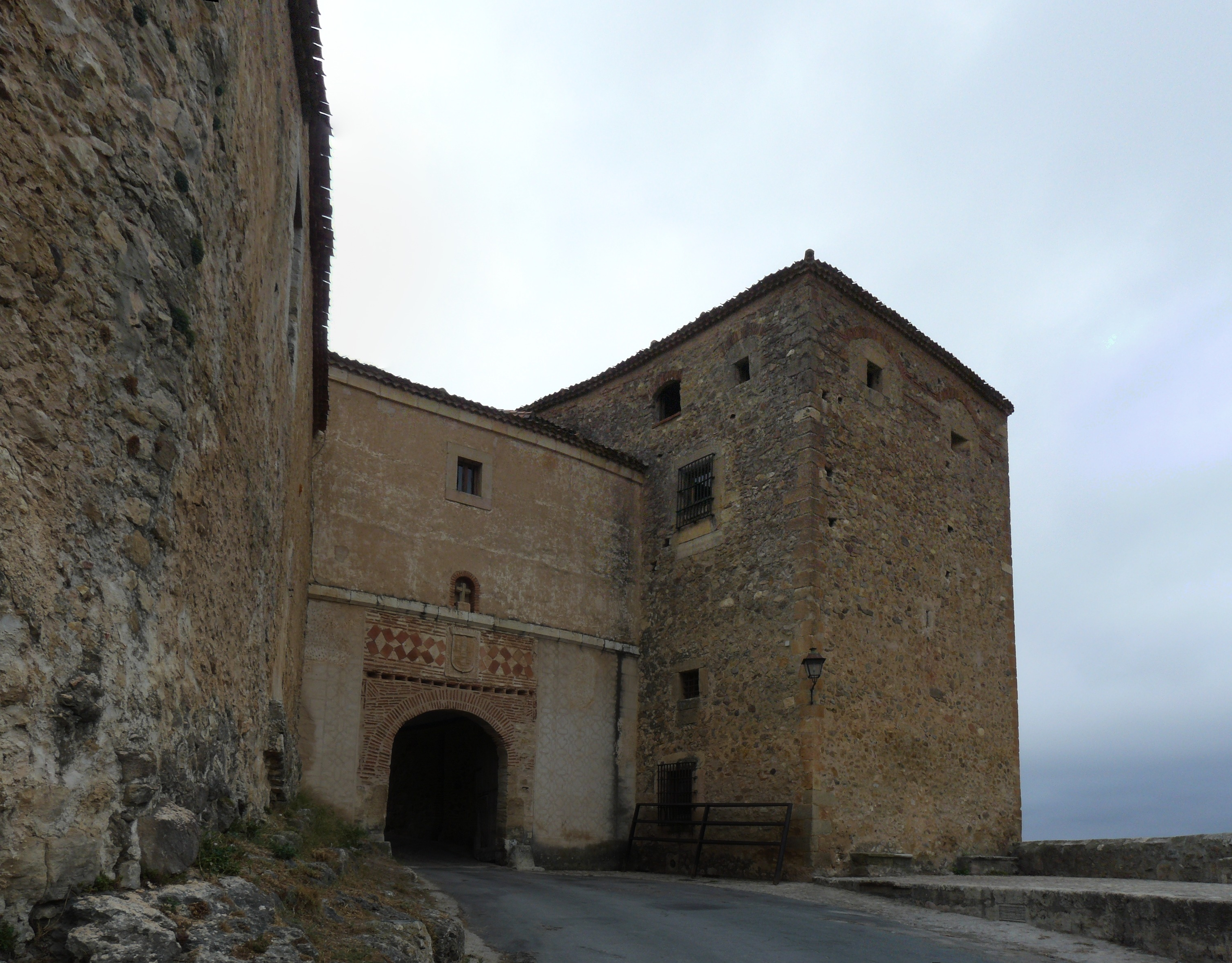 Medieval gate into Pedraza, Segovia (Spain)